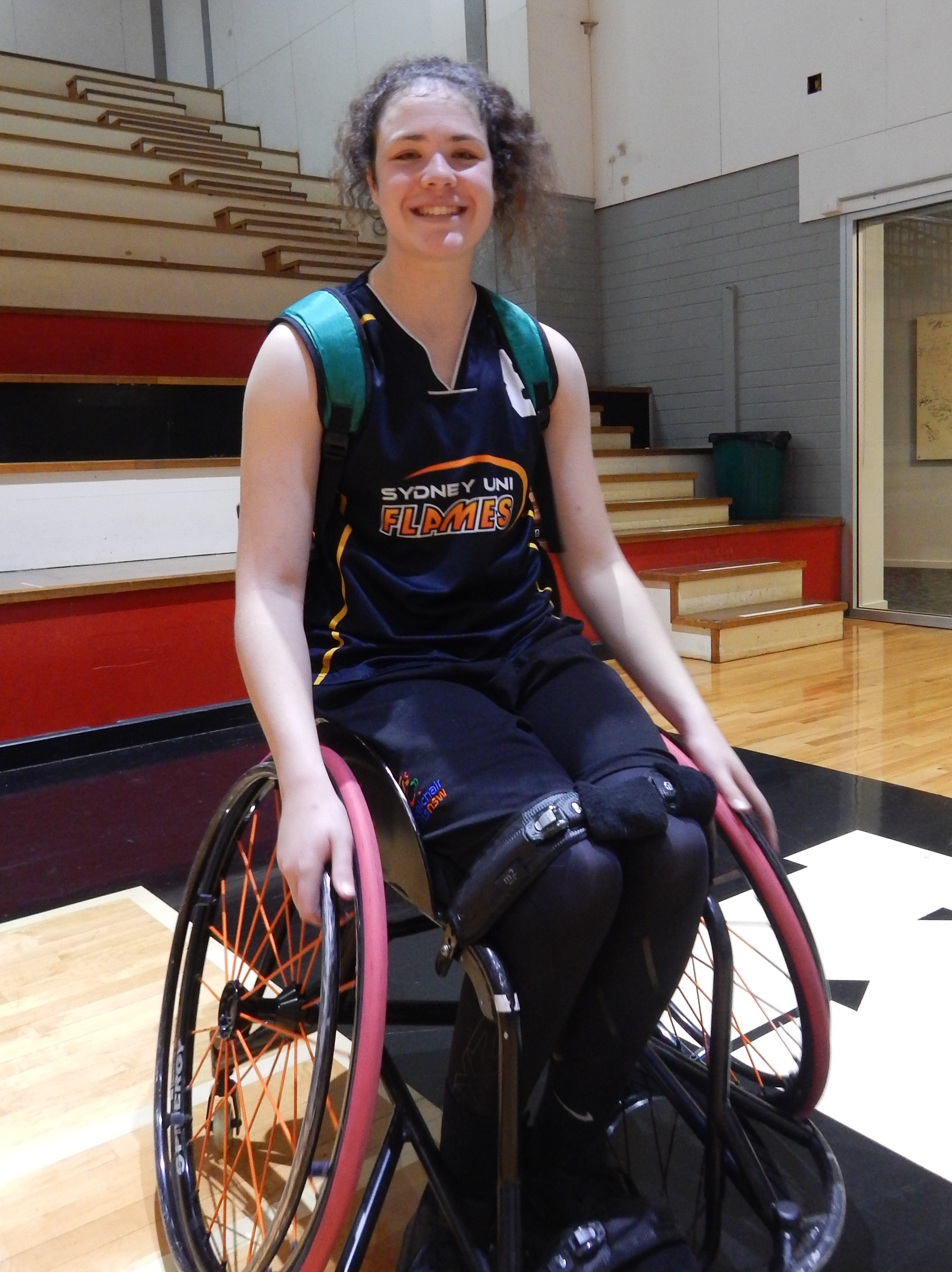 Annabelle Lindsay (born 10 February 1998) is a 4.5 point Australian wheelchair basketball player. She made her international debut with the Australian women's national wheelchair basketball team (the Gliders) at the Osaka Cup in February 2017. Seen here playing for the Sydney University flames at the Kilsyth Sports Centre in Melbourne